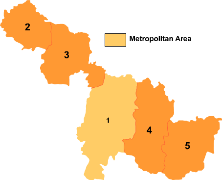 Map of Suzhou in Anhui province.